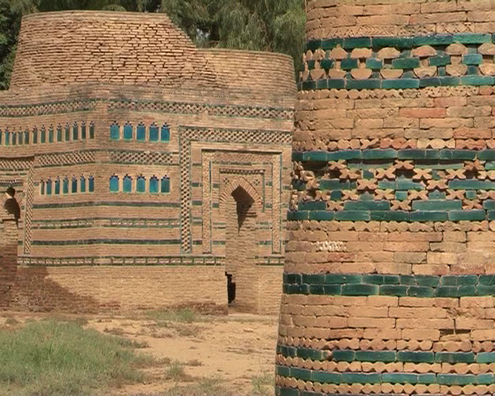 Handeere ( Mahra ) This is a photo of a monument in Pakistan identified as the PK- 67